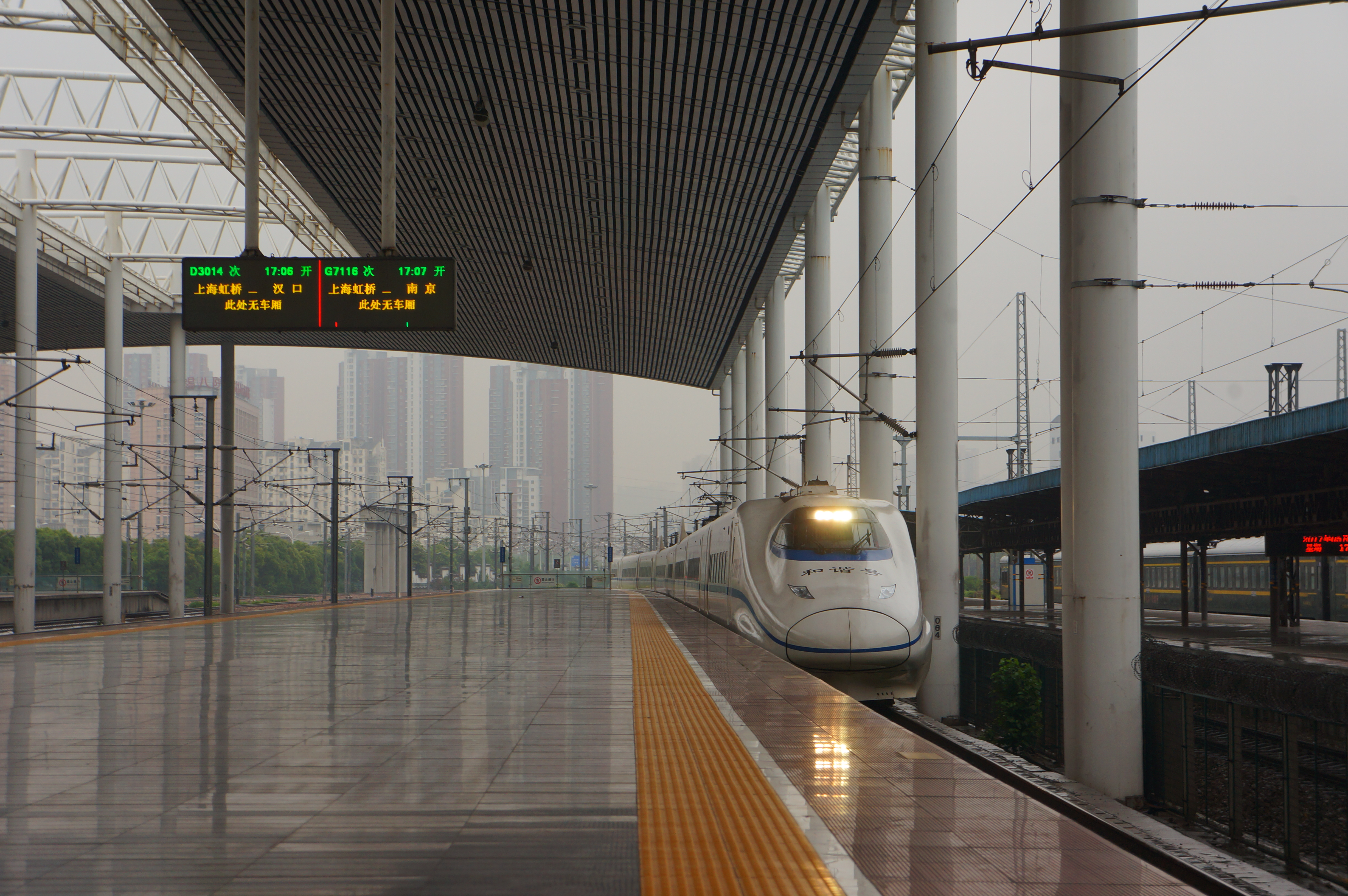 201705 G7116 enters into Wuxi Station